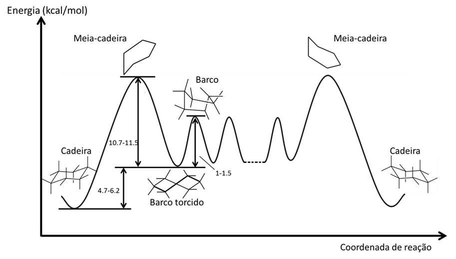 Figura h. Perfil de energia para o processo de interconversão do ciclohexano.